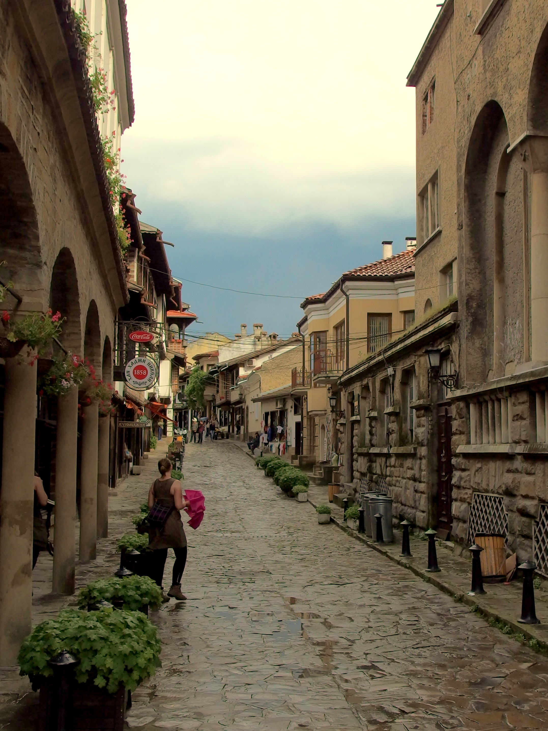 2014-06-21 in Veliko Tarnovo.